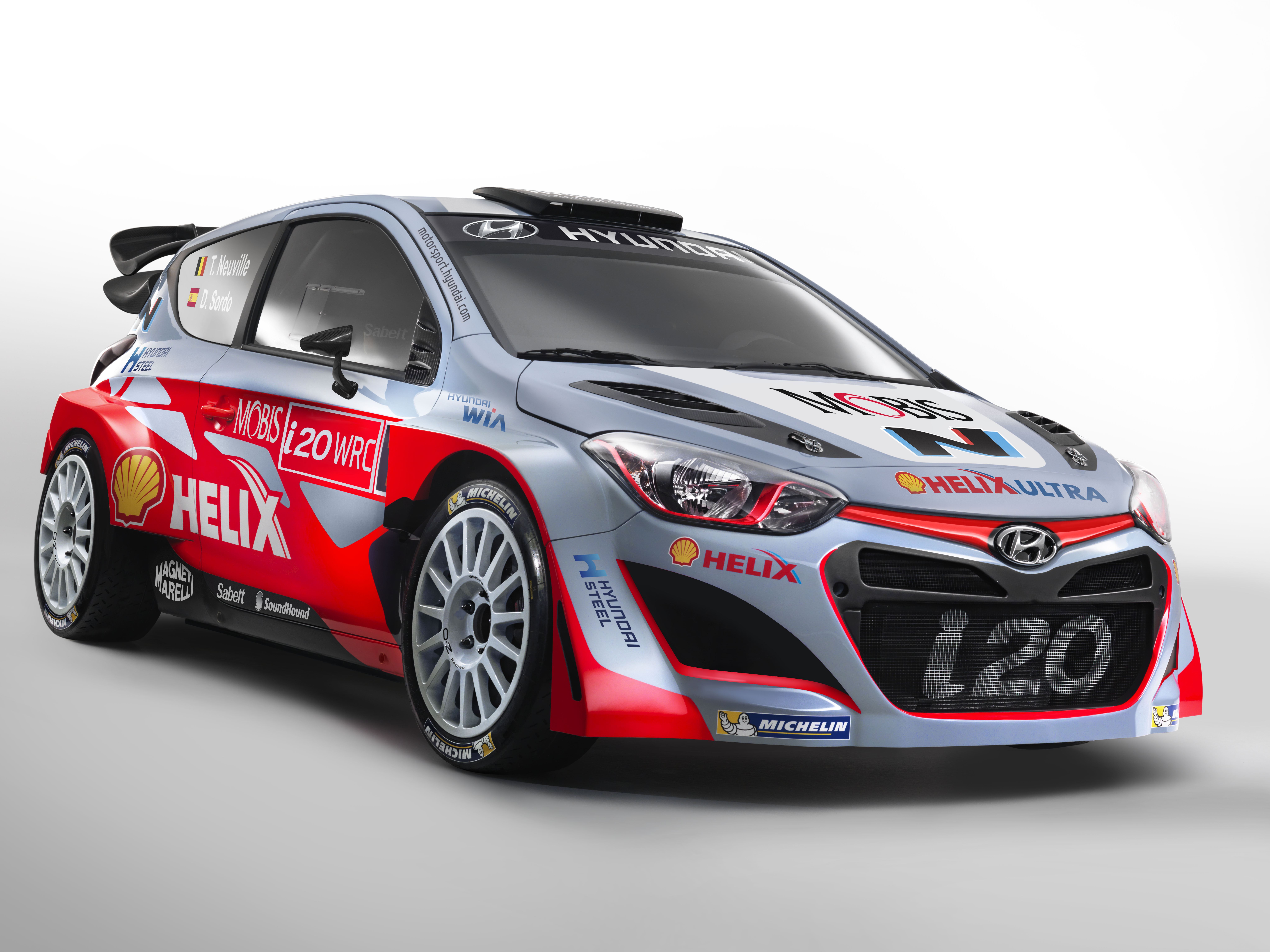 The 2015 Hyundai i20 WRC, set to compete in the 2015 World Rally Championship for Hyundai Motorsport.